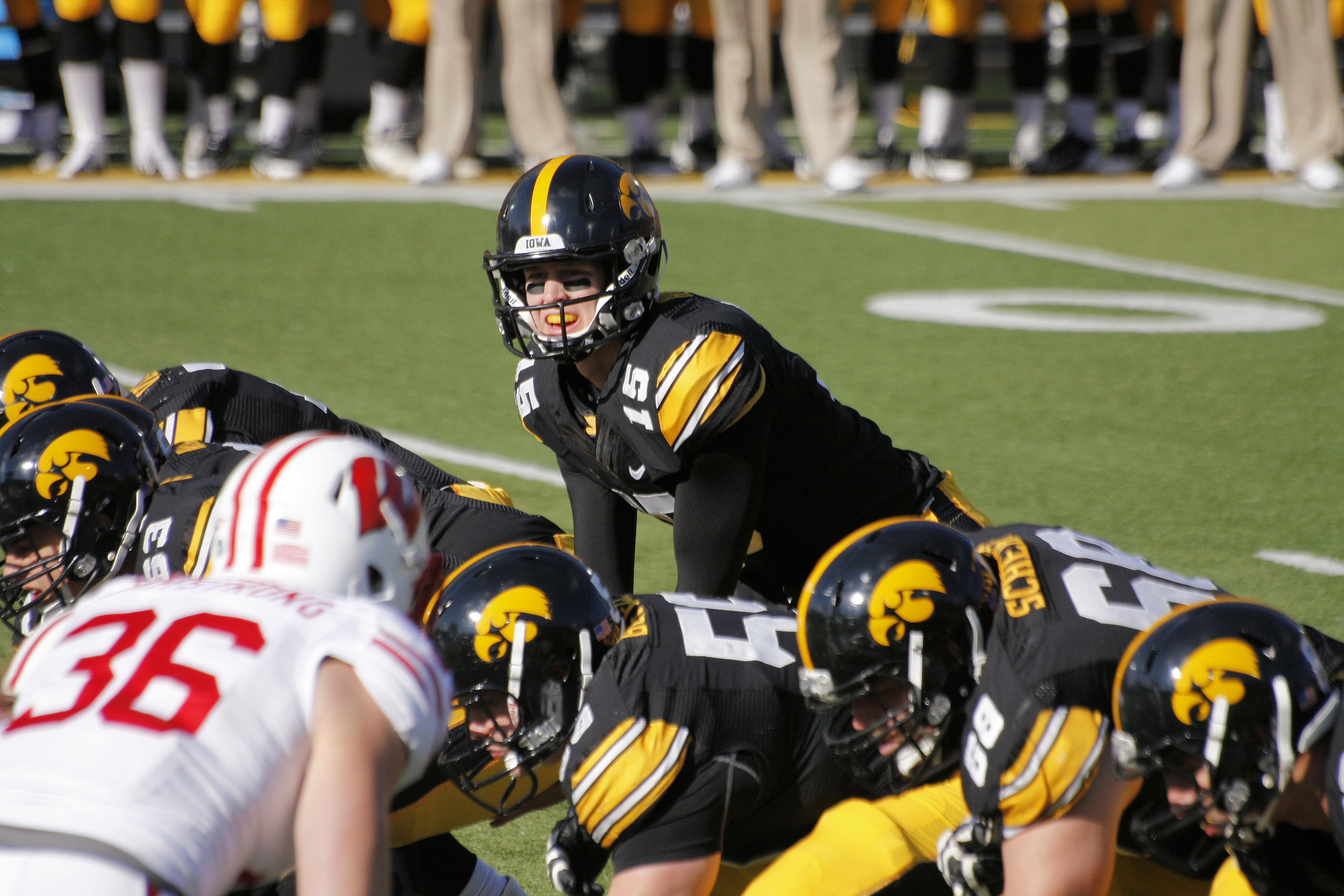 Iowa quarterback Jake Ruddock calls a play early in the game. Photos from the November 2 football game between the University of Wisconsin-Madison and the University of Iowa at Kinnick Stadium. The Badgers won 28-9.